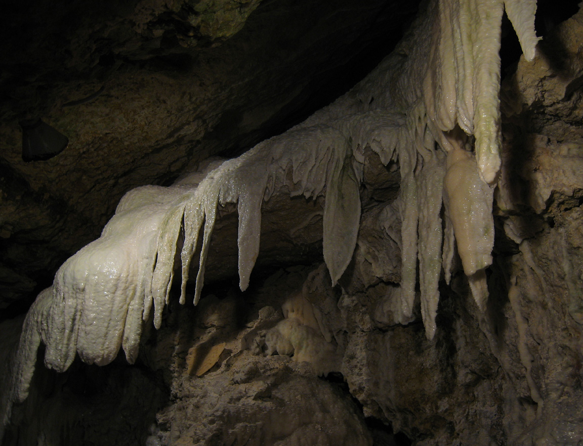 Sintered bordure in the Grottos of Savonnières in France